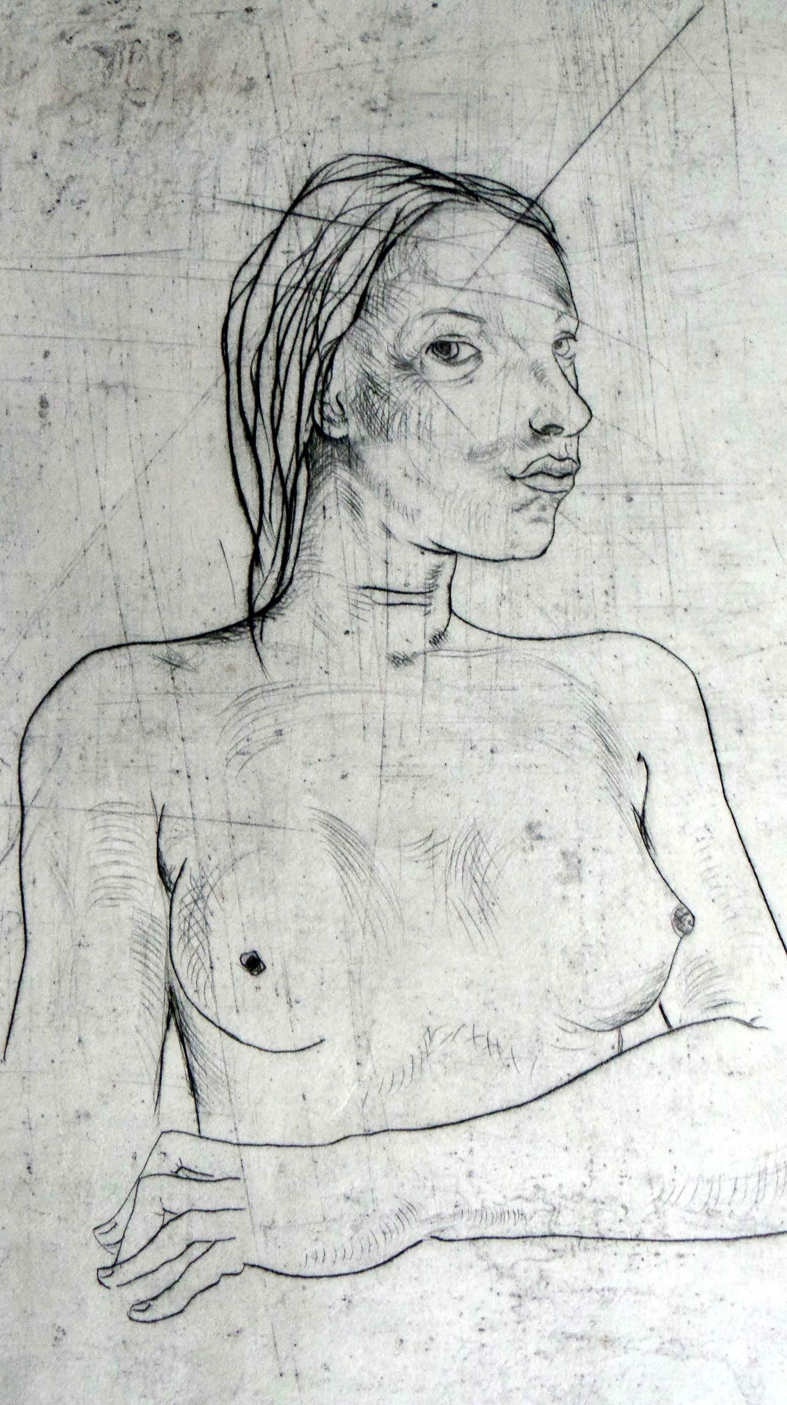 The Joachim Karsch etching.